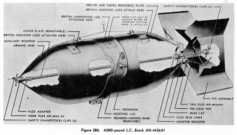 US light case bomb, 4000 Lb (1920 kg, containing 1470 kg Amatol)